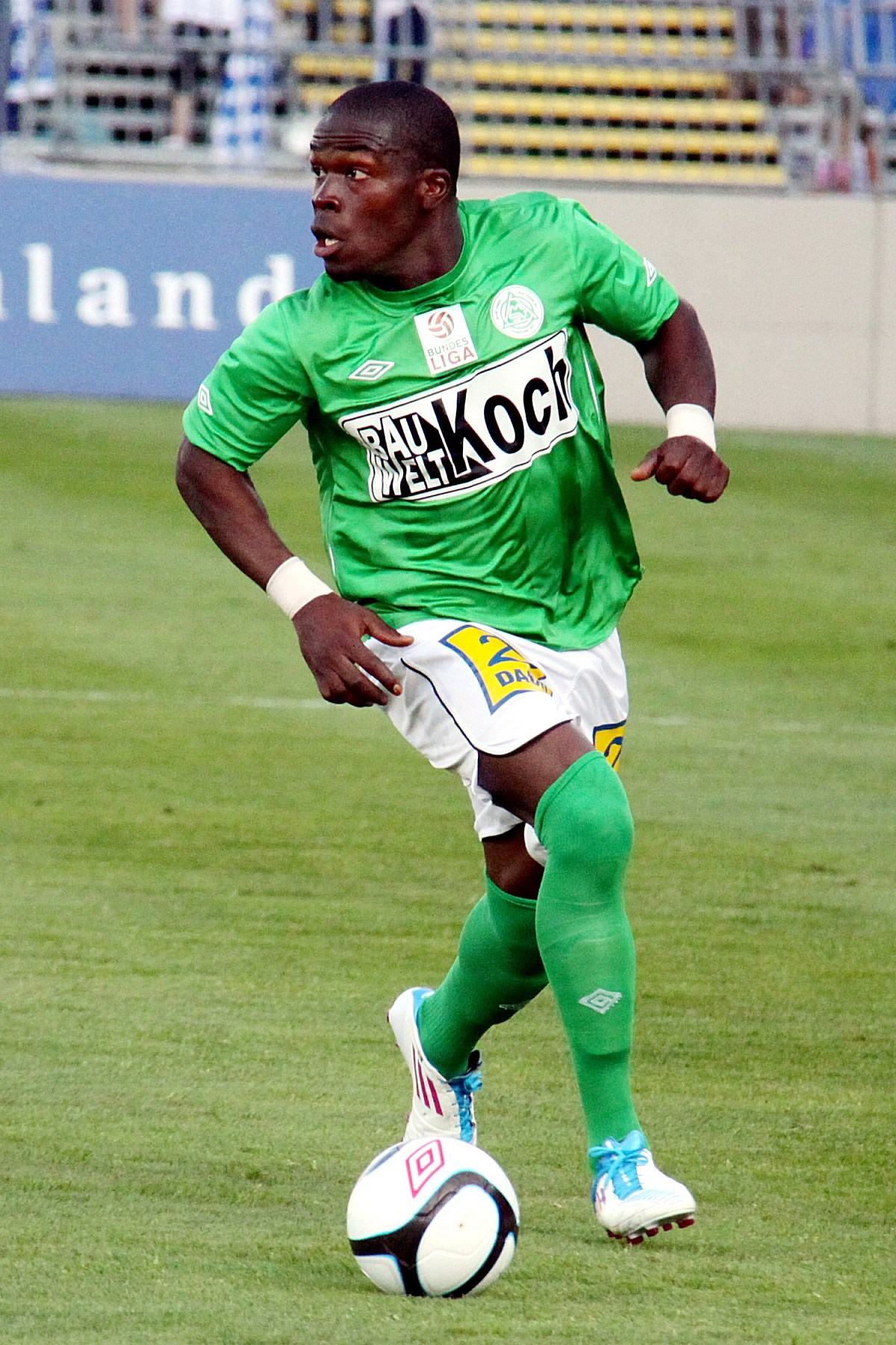 The foto shows: Wilfried Domoraud (SV Mattersburg.